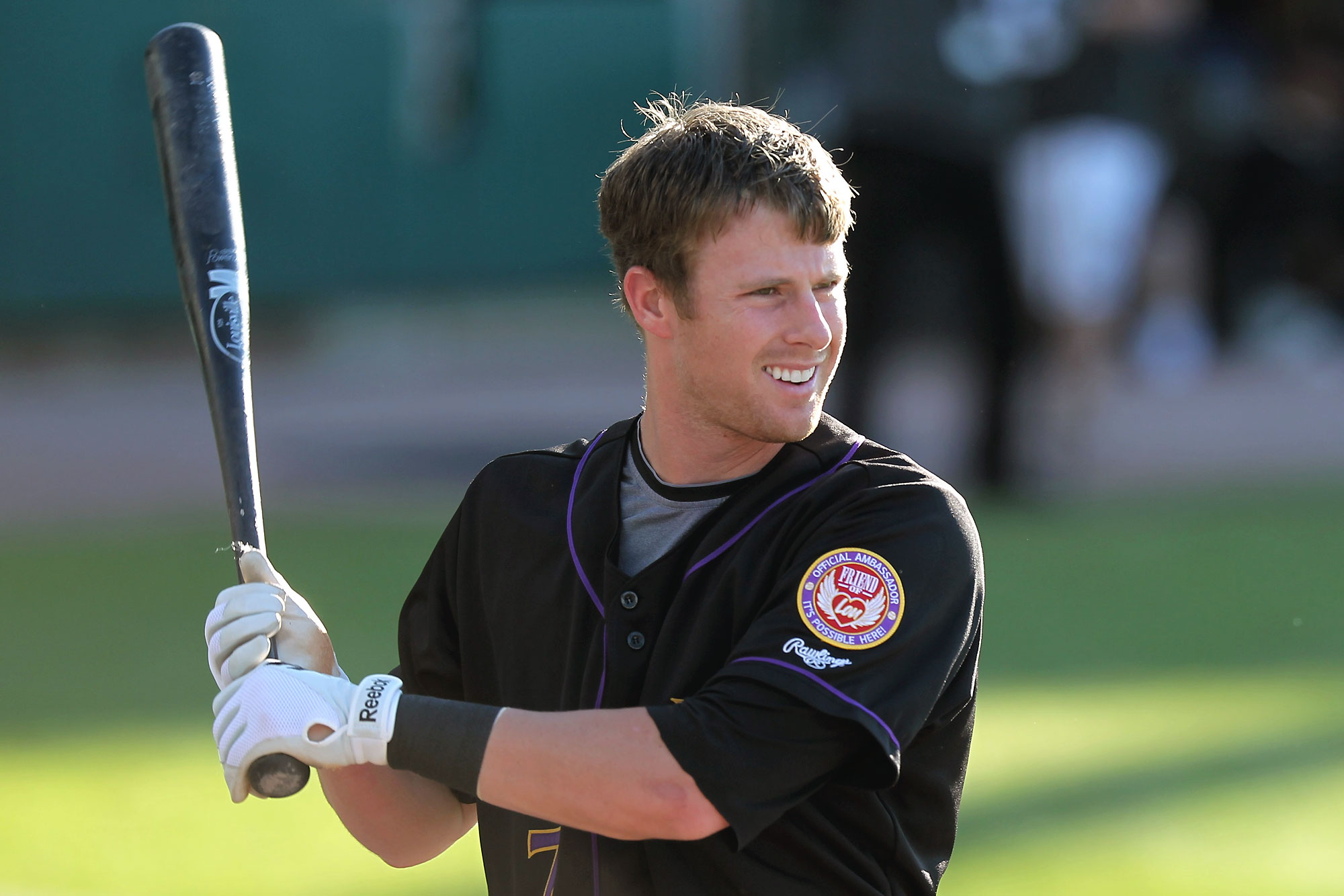 Zack Cozart, June 10, 2010, Syracuse, NY. 04:18, 14 December 2010 . . BubbaFan . . 2,000×1,334 (238 KB)